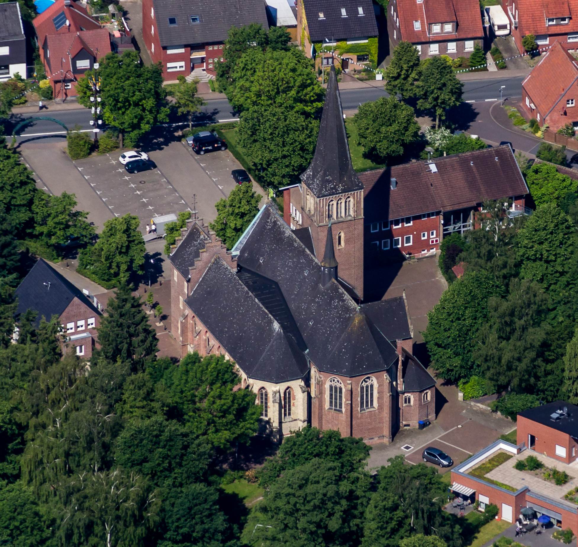 Church, Rorup, Dülmen, North Rhine-Westphalia, Germany This image shows a heritage building in Germany, located in the North Rhine-Westphalian city Dülmen (no. 25).